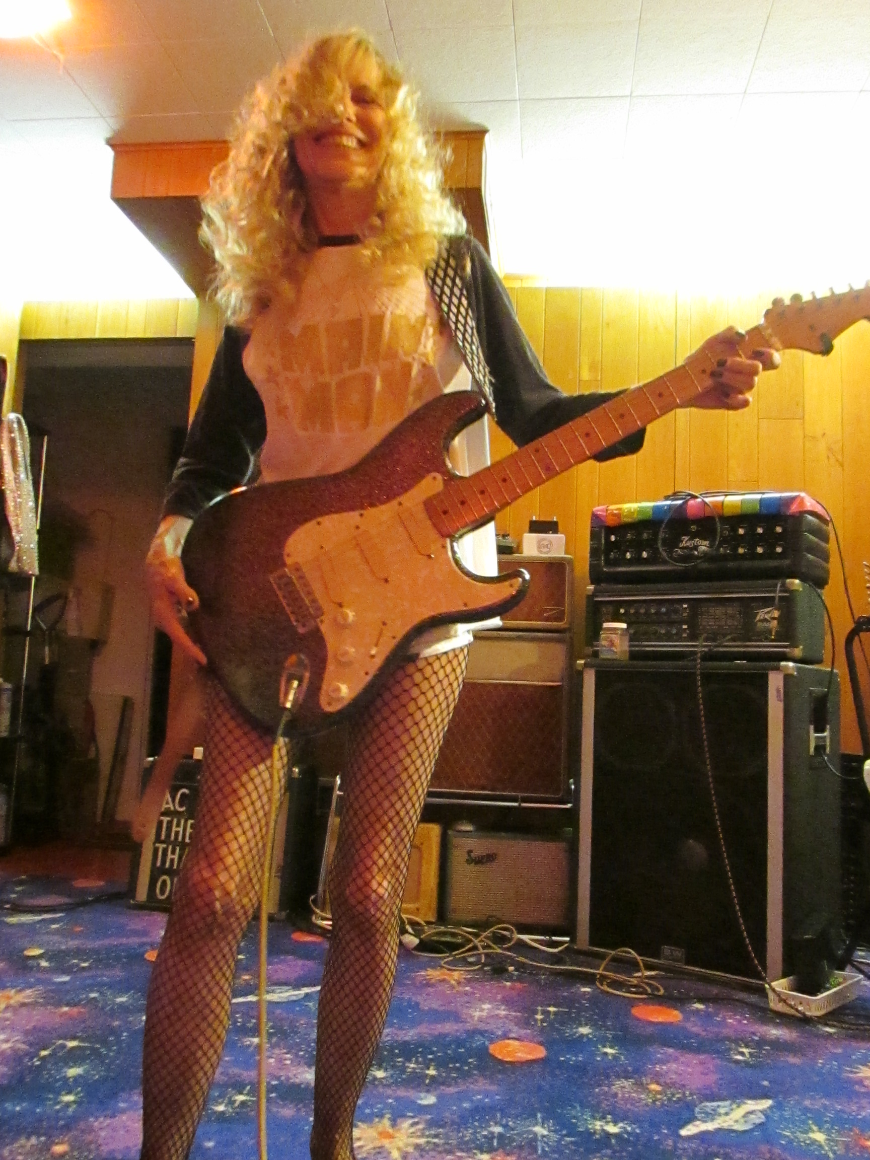 Lucid Nation singer guitarist Tamra Spivey in rehearsal in 2016. Photo by her lead guitarist Ronnie Pontiac.